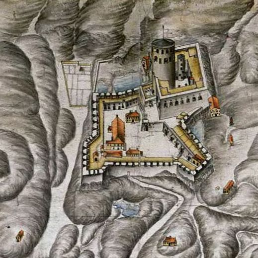 Drawing of the fortress Karlsten/Kristiansten in Marstrand 1719. View from northeast. Detail of a contemporary Danish map covering the battlefield.